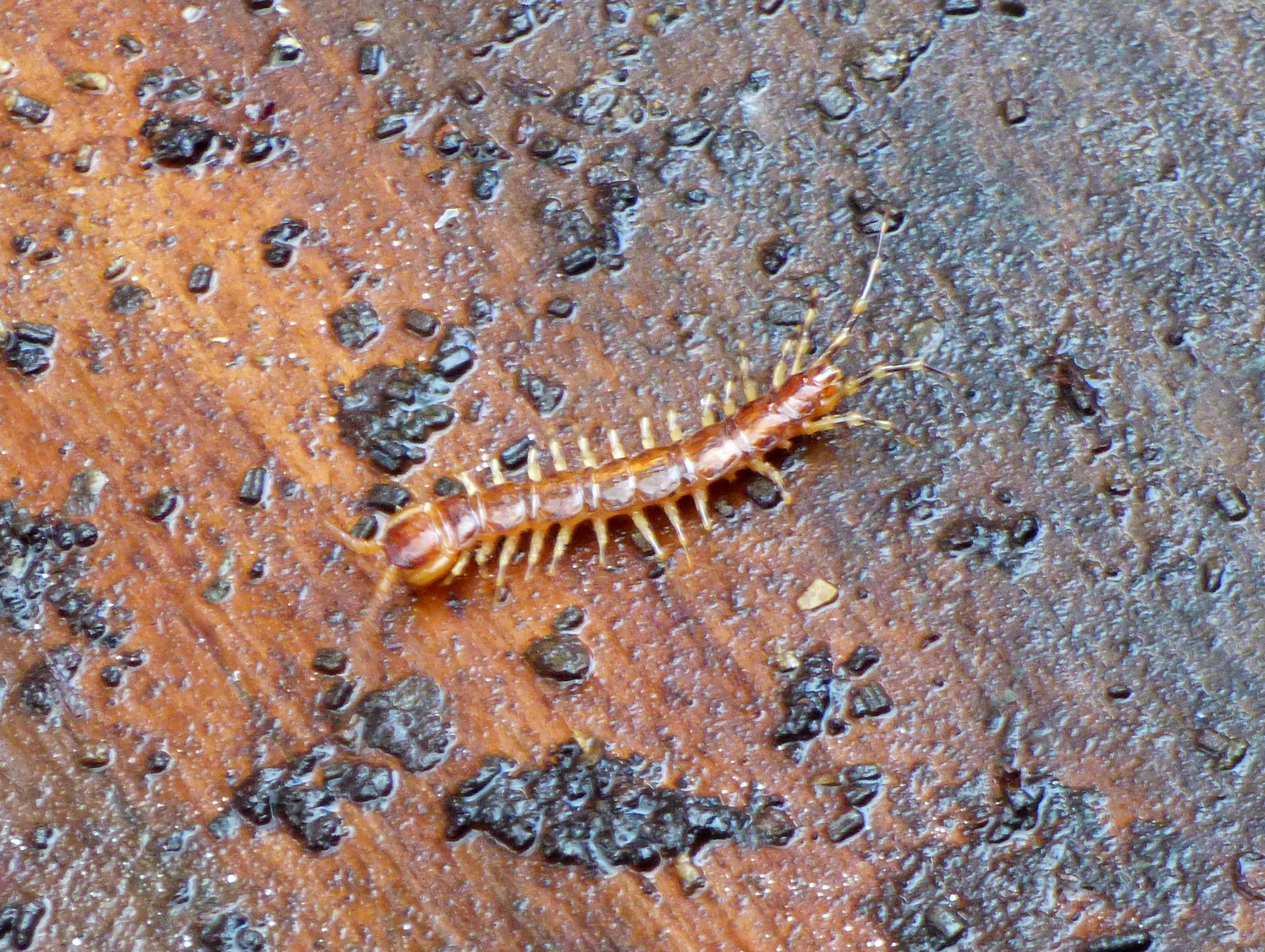 Fancy, Forest of Dean, Glos